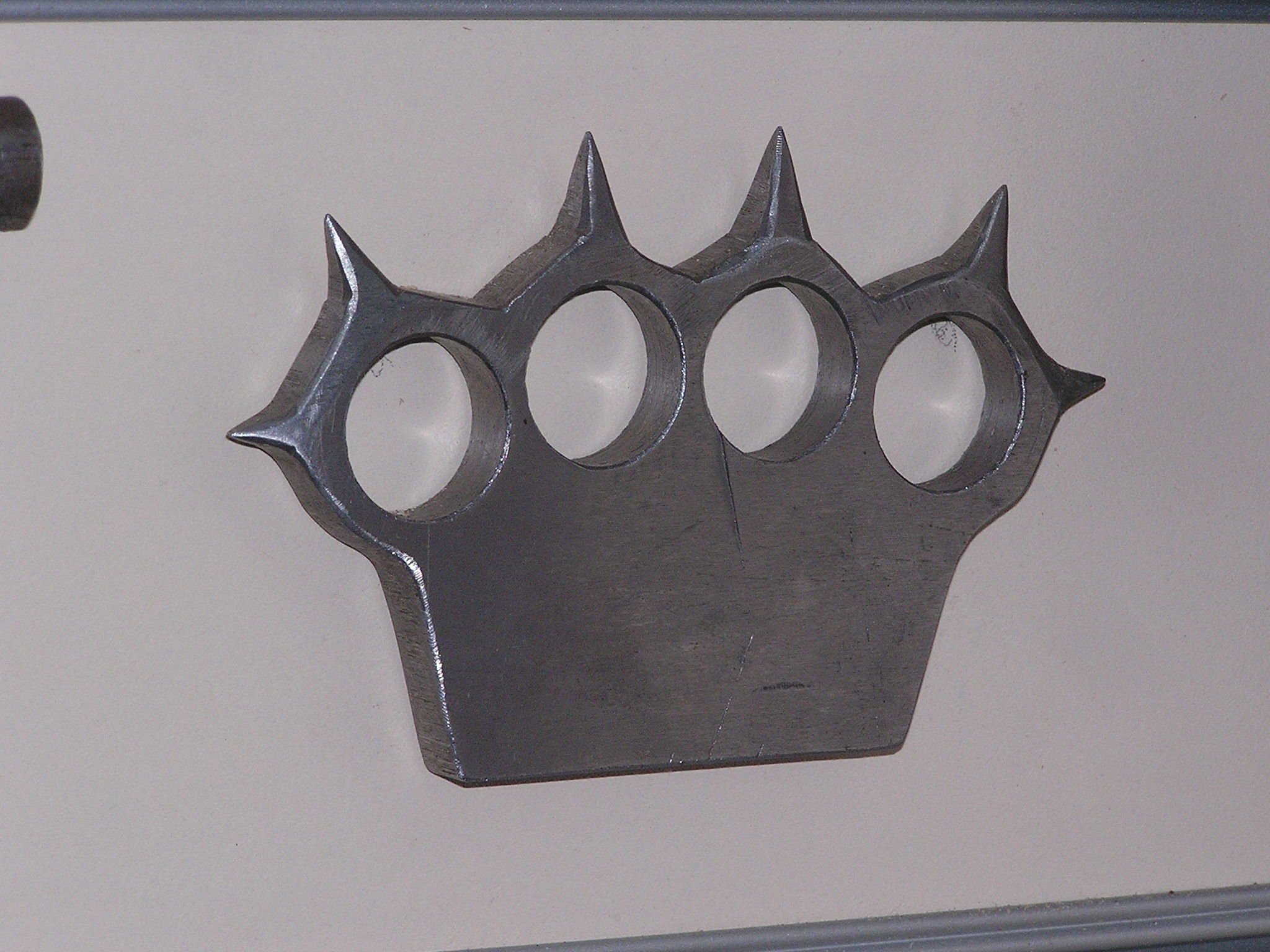 Museum of the History of Donetsk militsiya